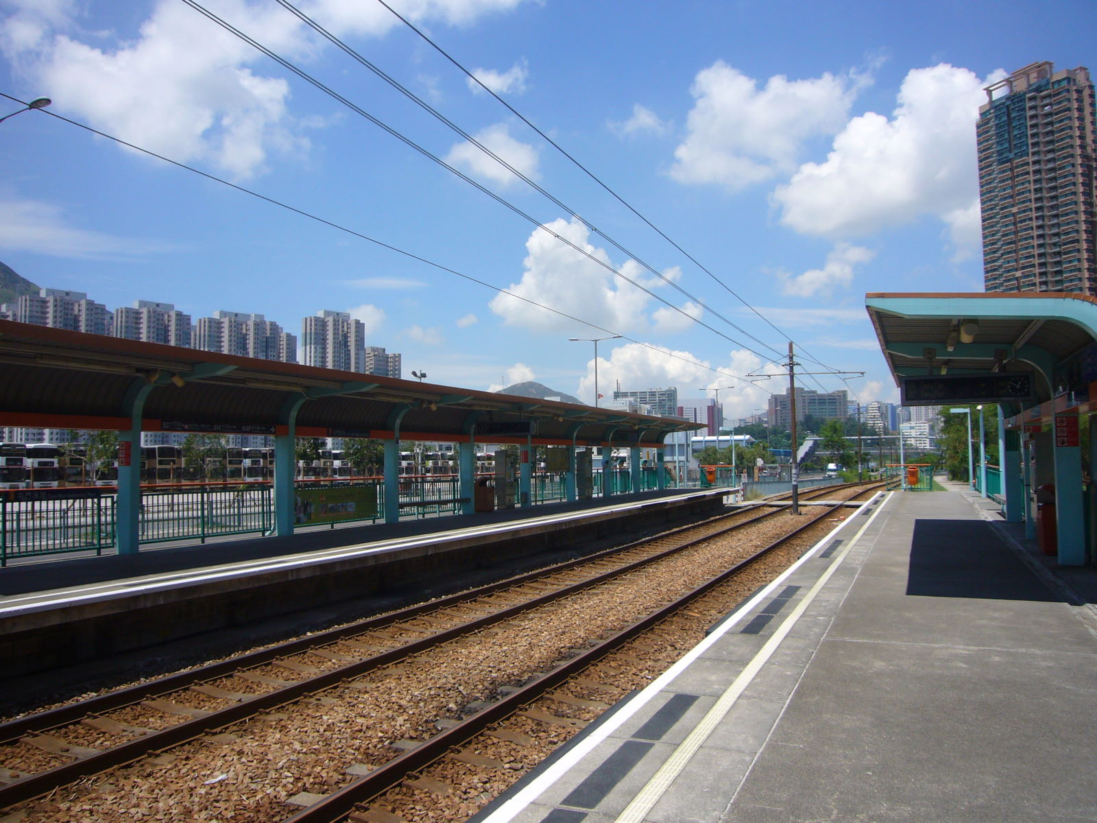 LRT Tuen Mun Swimming Pool Stop, MTR HK